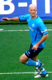 Matthew Booth in action for FC Krylya Sovetov Samara